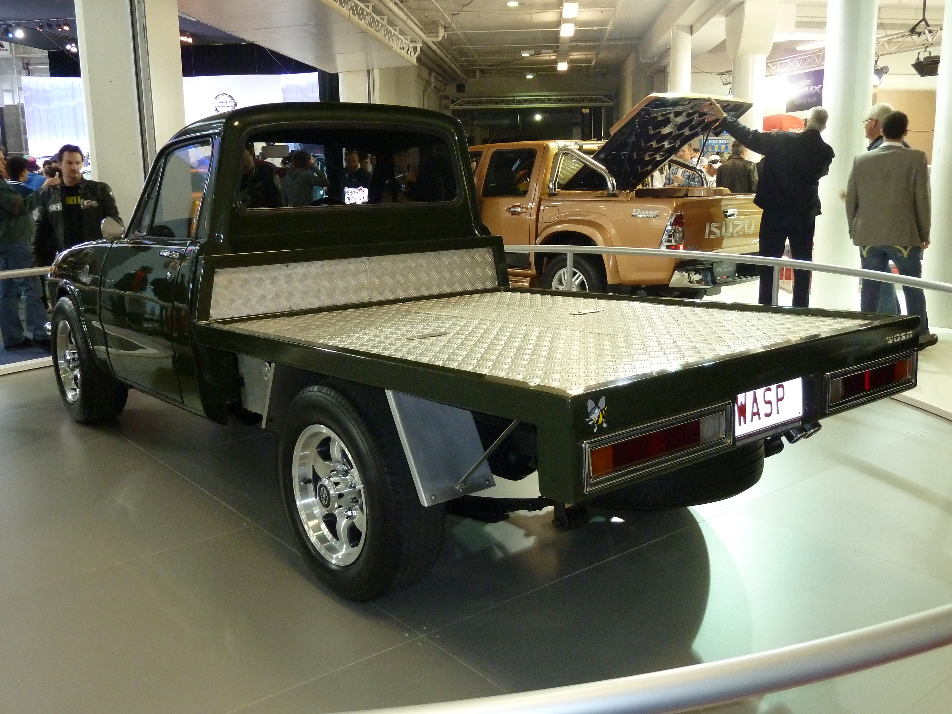 1965 Isuzu Wasp (KR20) cab chassis. Photographed at the 2010 Australian International Motor Show, Sydney, New South Wales, Australia.